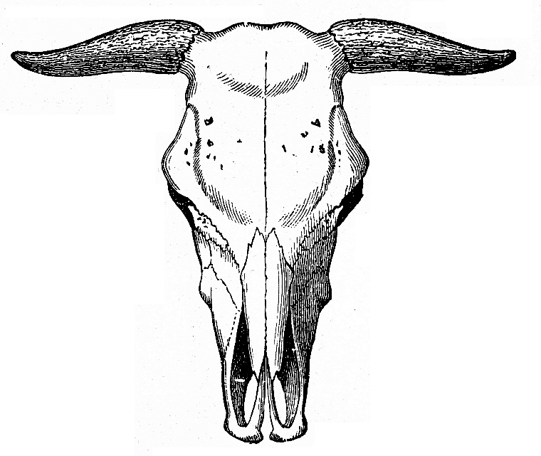 Skull of a beef.